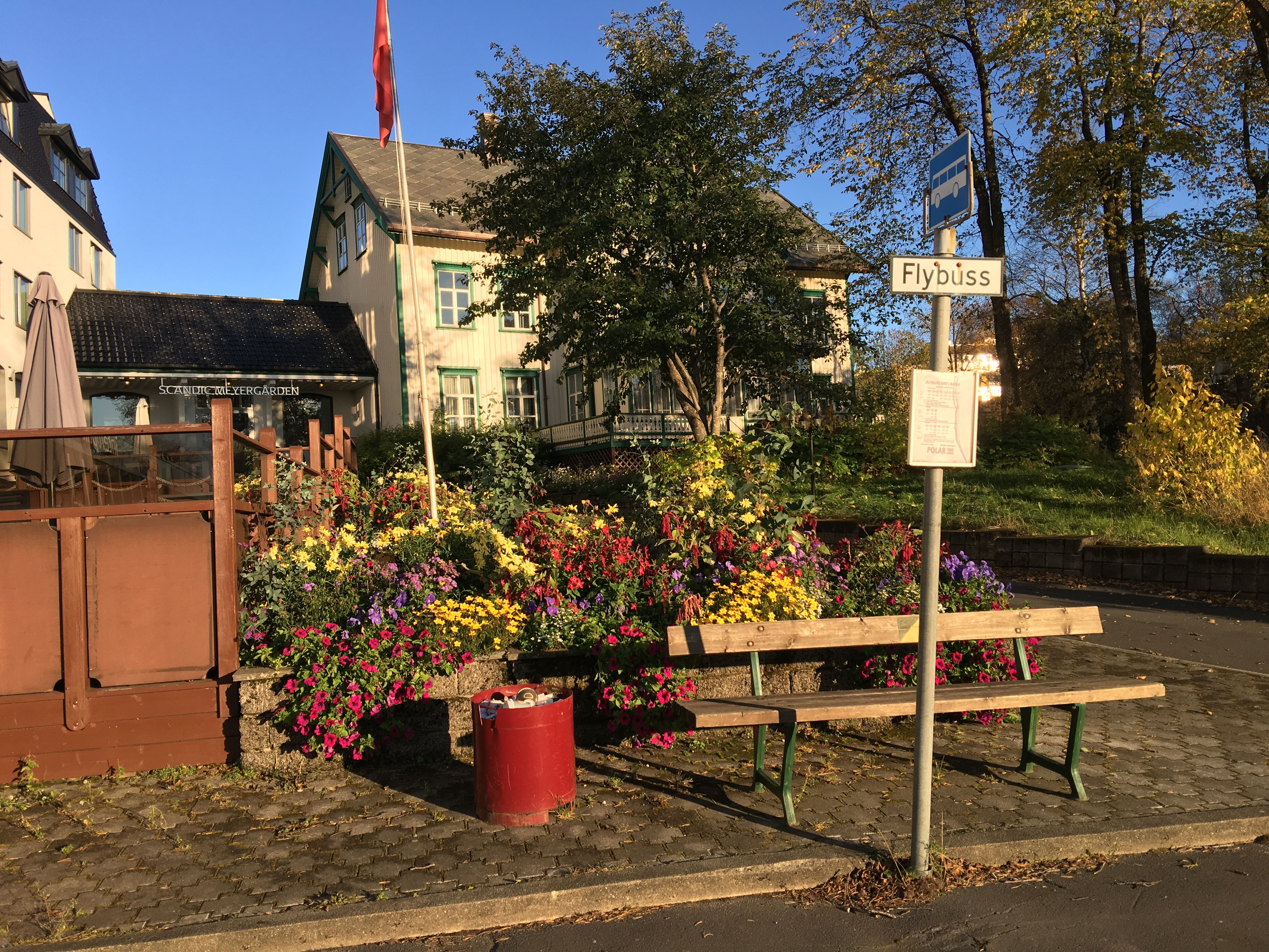 Bus stop at Scandic Meyergården hotel, Fridtjof Nansens gate, Mo i Rana, Norway. Sign for Polar Tours Flybussen (airport shuttle bus).